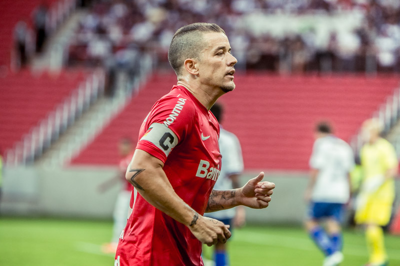 Andrés D'Alessandro em partida no Beira-Rio.